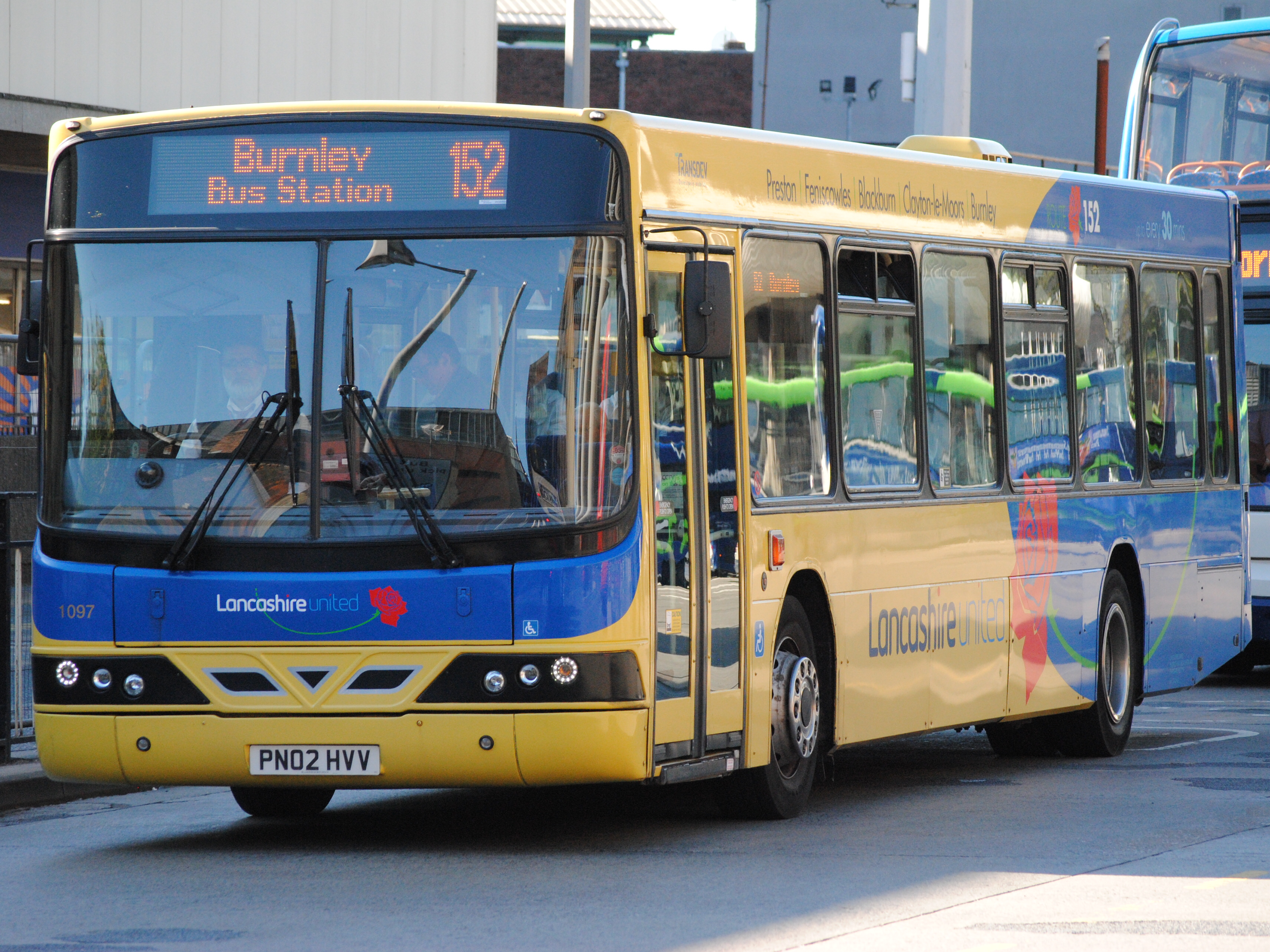 Volvo B10BLE Wright Renown